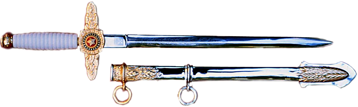 Dagger of the Police Cadet.